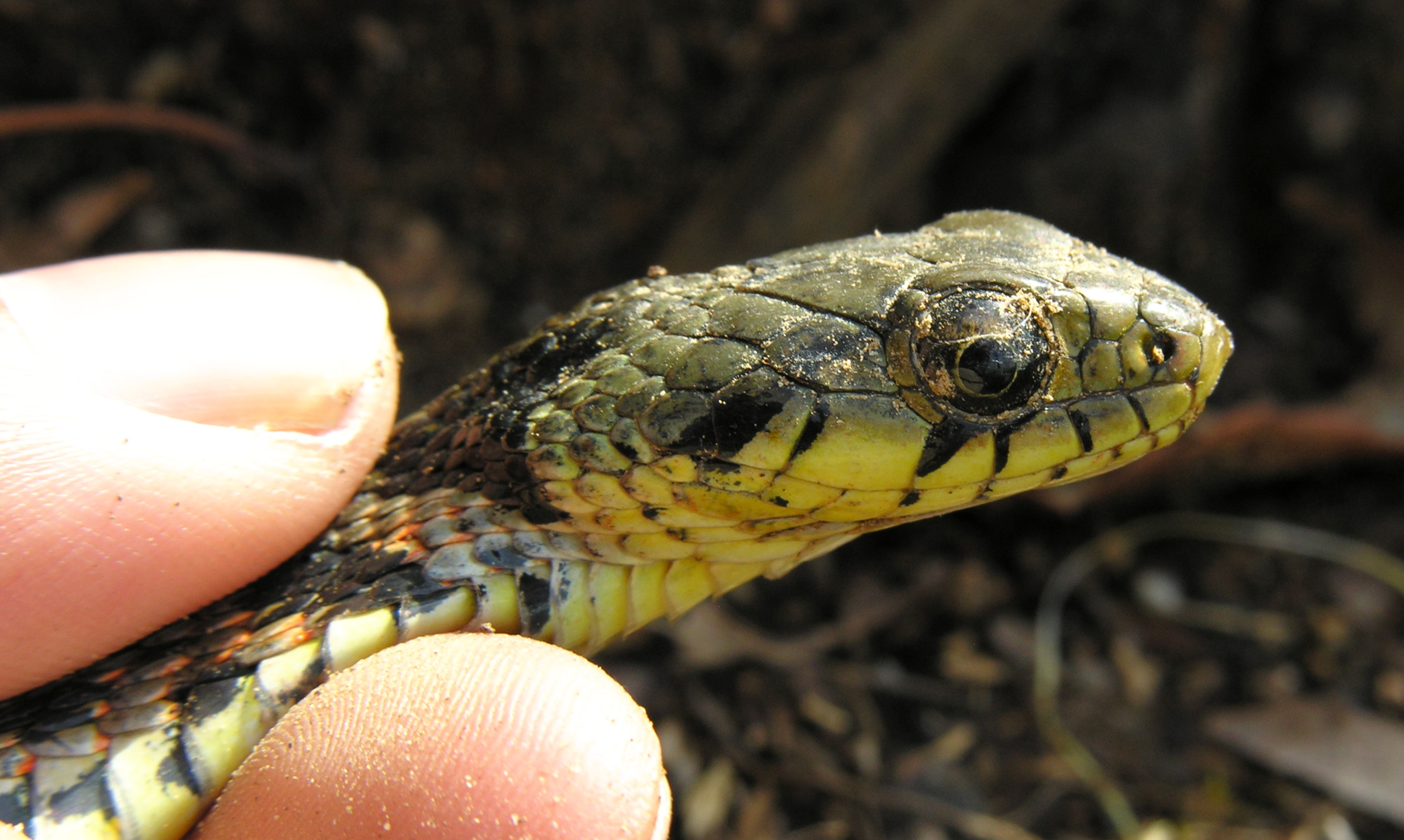 Head of Tiger keelback